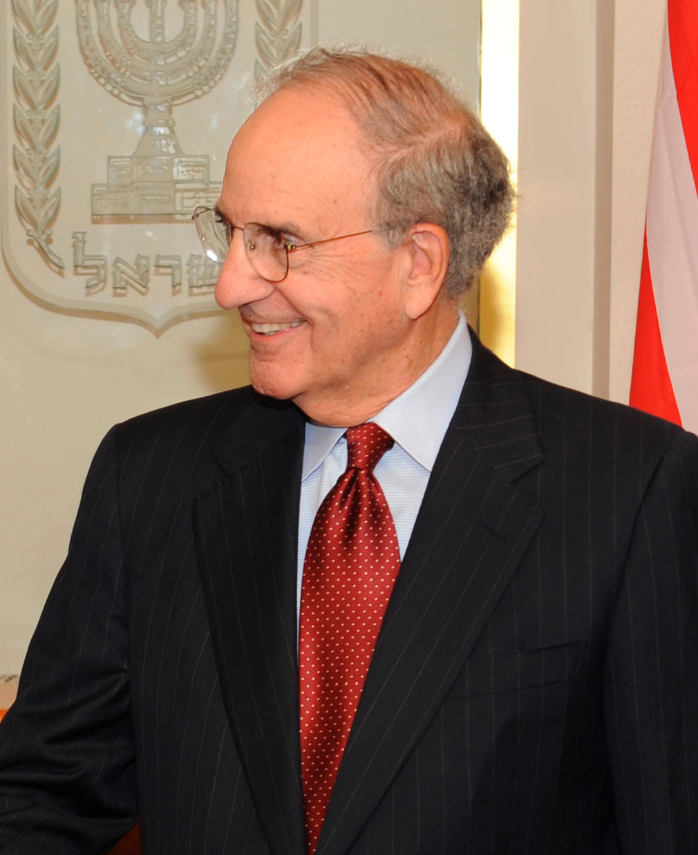 Sen. George Mitchell